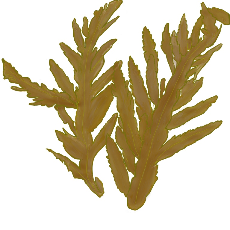 Seaweed